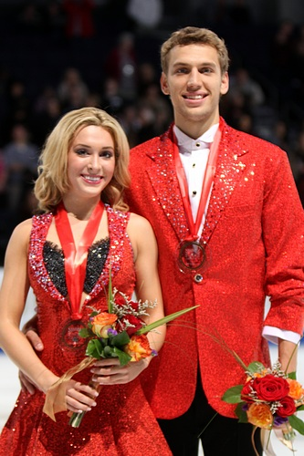 Isabella TOBIAS and Deividas STAGNIUNAS at the 2011 Skate America